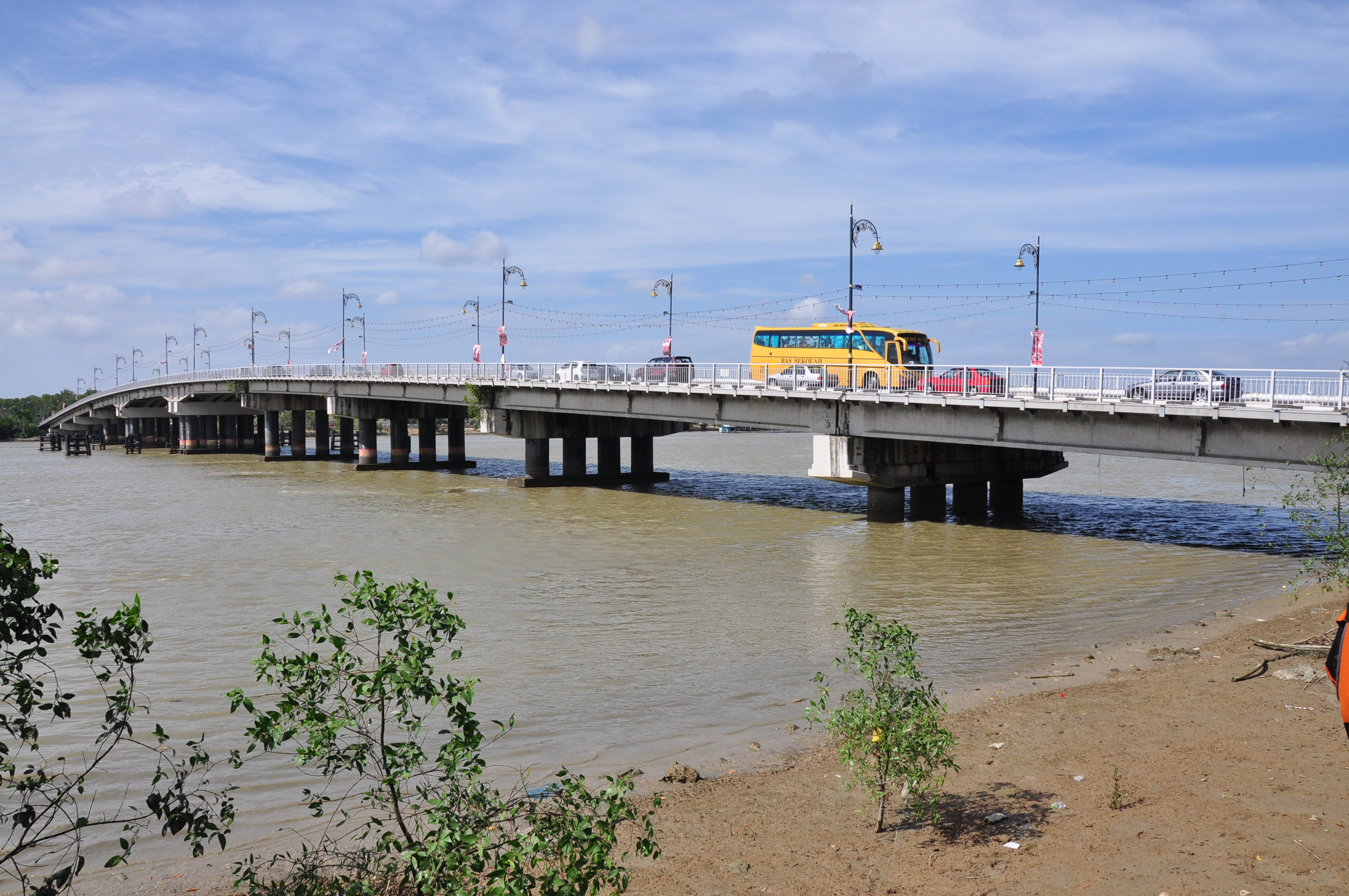 Muar bridge across Sungei Muar.